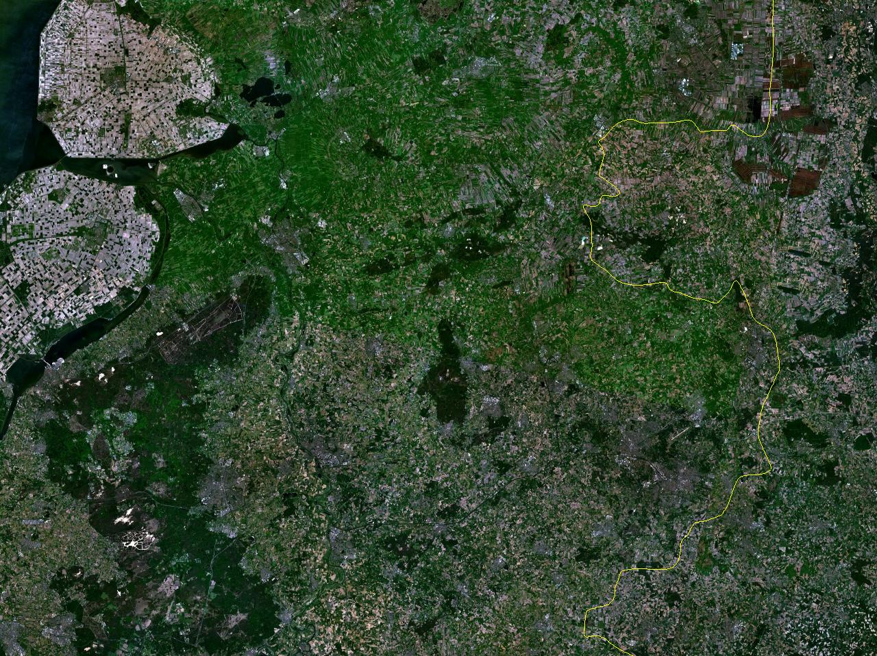 Overijssel, The Netherlands.